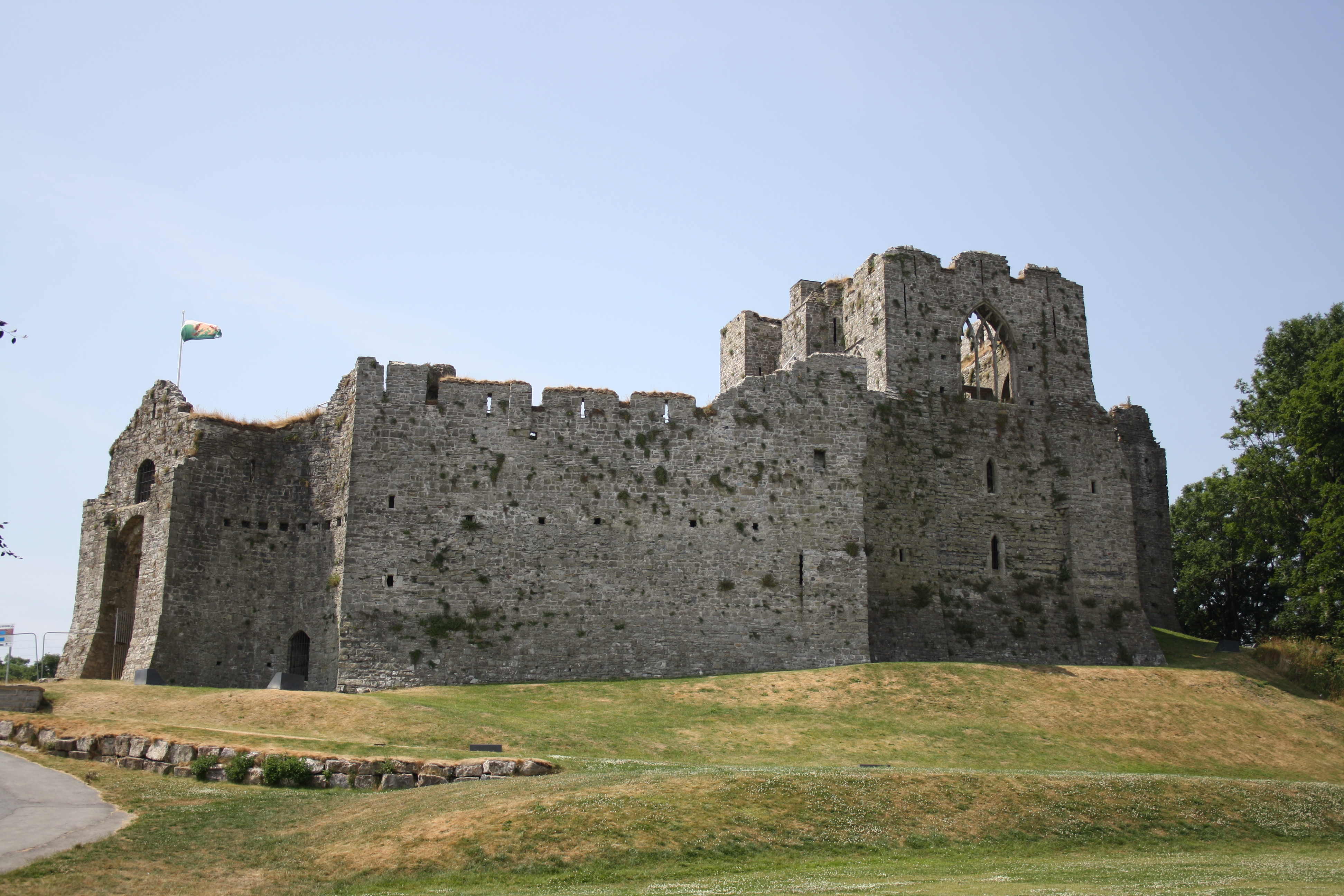 Oystermouth Castle